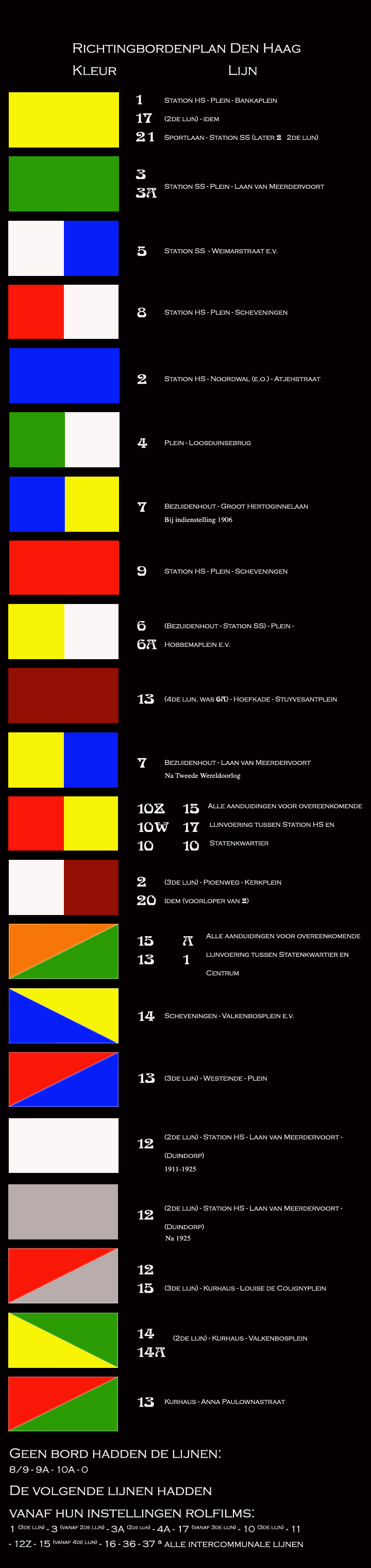 Redone, last version was incorrect